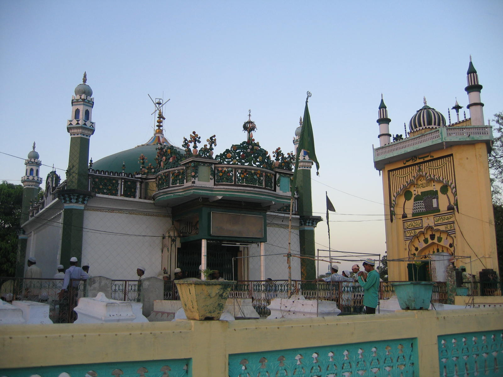 Dargah Hazrat Syed Makhdoom Ashraf Jahangir Simnani(R.A)Kitchaucha Shariff U.P.INDIA